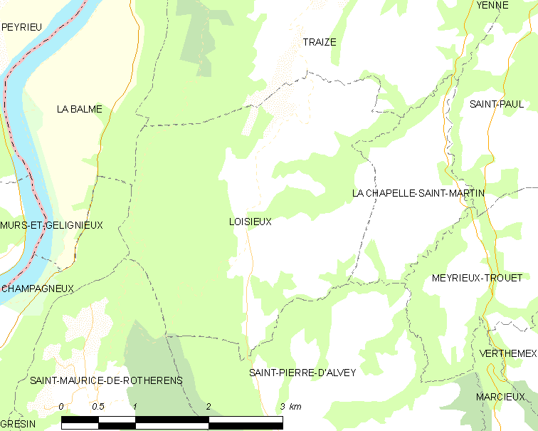 Map of French municipality